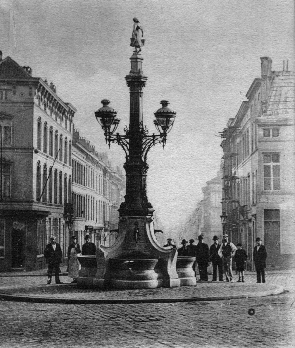 Bruxelles - Fontaine monumentale à St Gilles (postcard)